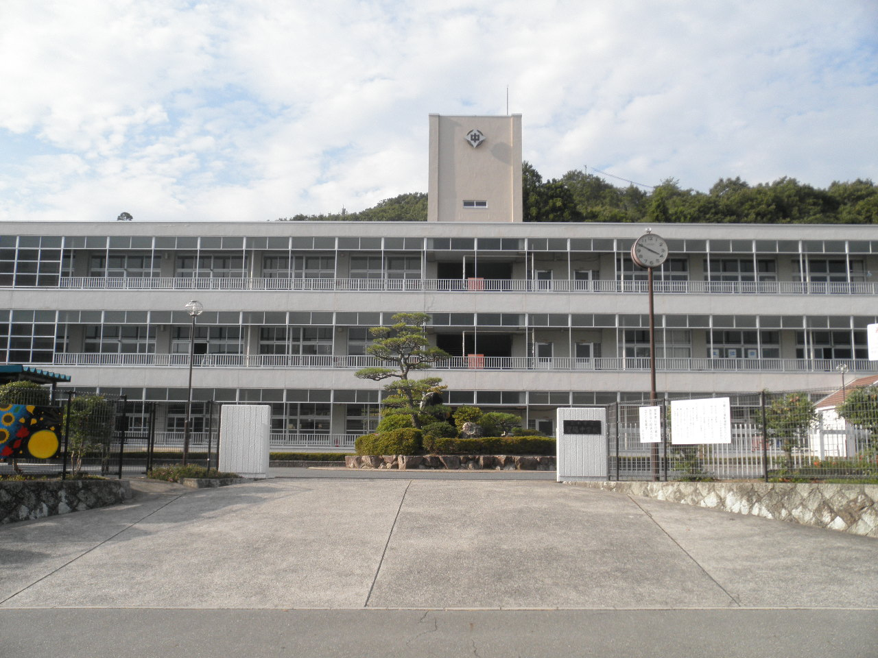 Seiyo Junior High School